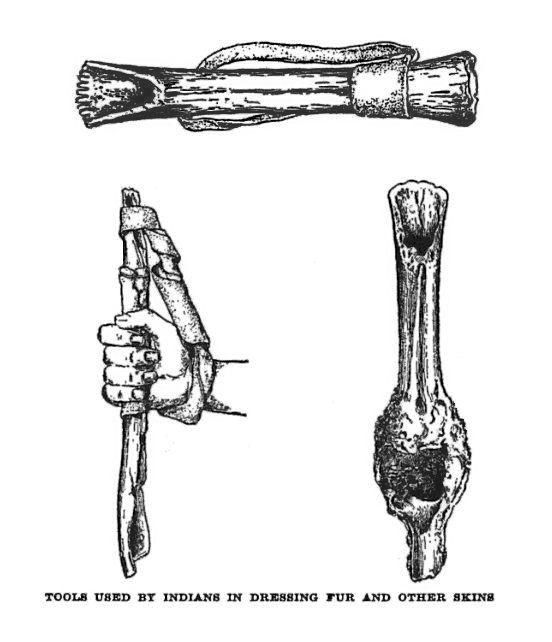 19th century knowledge indian lore tools for dressing furs and skins